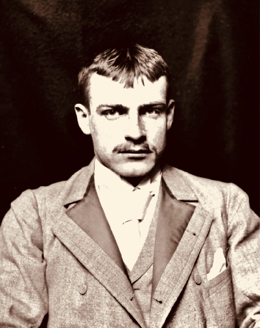 Willi Grétor (1868–1923), also Gretor, in fact: Julius Rudolph Vilhelm Petersen, born on Wundlacken Castle near Königsberg in East Prussia, raised in the Danish capital Copenhagen. He was the husband of painter Rosa Pfäffinger (1866–1949) and the father of Lilly Ackermann (1891–1976), née Schorer, and Georg Gretor (1892–1943).